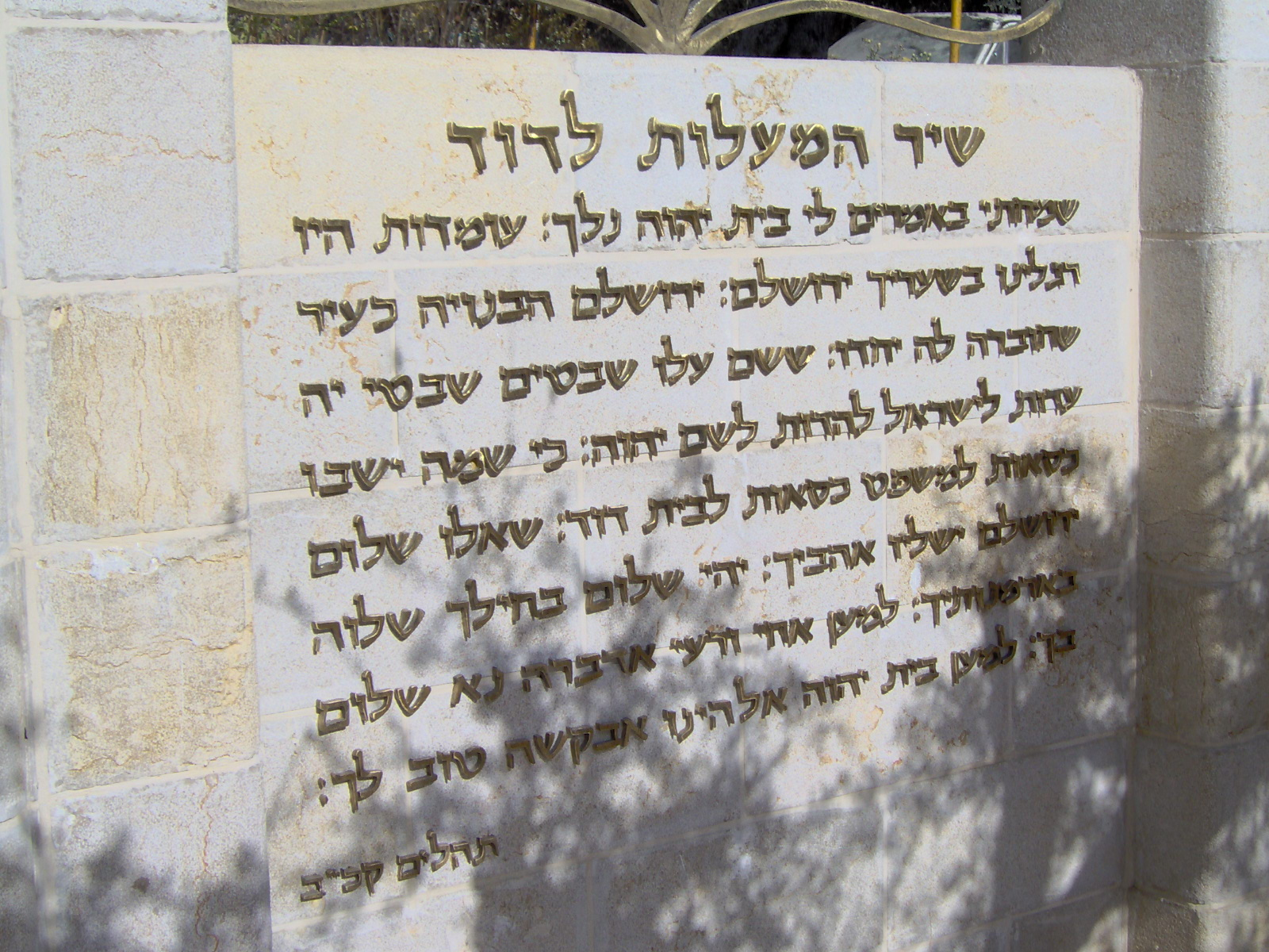 The Songs of Ascents from the Psalms, in Hebrew and English are written on the walls in the entrance to the City of David in Jerusalem.